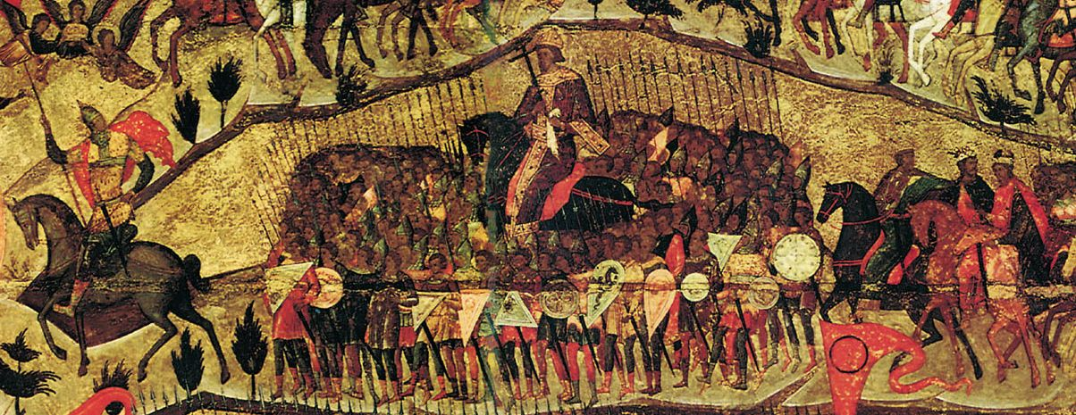 Detail of Blessed is the Host of the King of Heaven (alternatively known as Church Militant). Russian icon, ca. 1550 - 1560. Tretyakov Gallery. This icon is traditionally perceived as an allegorical representation of the conquest of the Kazan khanate.